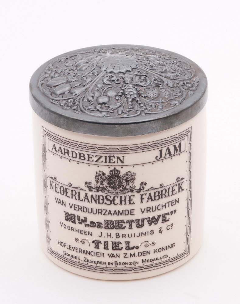 Earthenware jam jar. A label is painted on the glaze with black ink. It reads: Strawberry Jam, Dutch Factory of More Sustainable Fruit. Co. “de Betuwe”, formerly known as J.H.Bruijnis & Co. TIEL. Purveyor to His Majesty the King. Gold, silver and bronze medal. There is a image of Flipje in black on the back. The lid is silver-plated and fruits and Flipje are depicted on it in relief in four quarters.